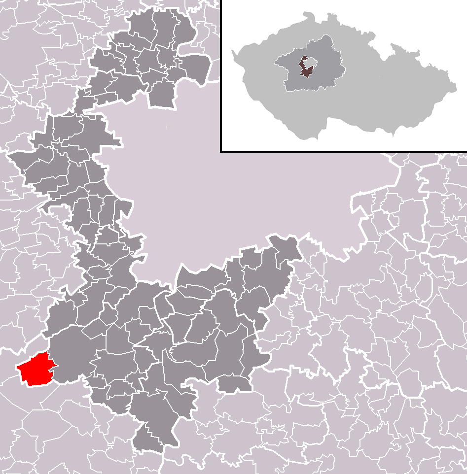 Location of Kytín municipality within Prague-West District and administrative area of Černošice as a Municipality with Extended Competence.